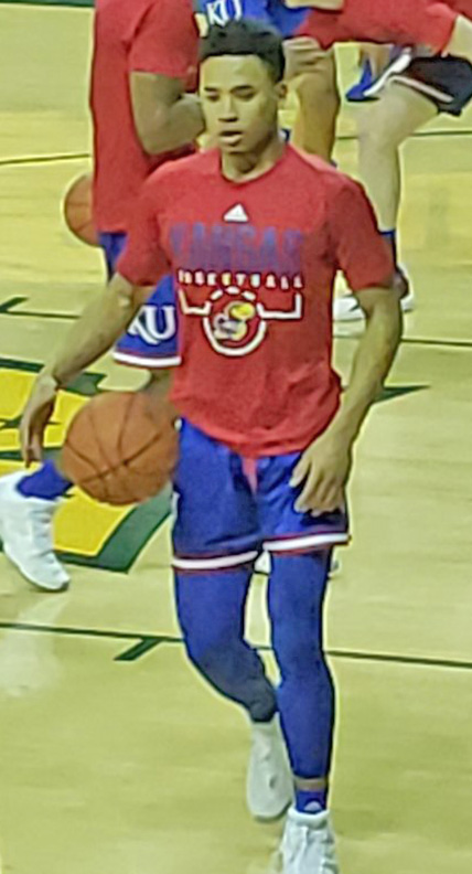 Devon Dotson warming up before the Kansas Jayhawks - Baylor Bears game in Waco, Texas on January 12, 2019.